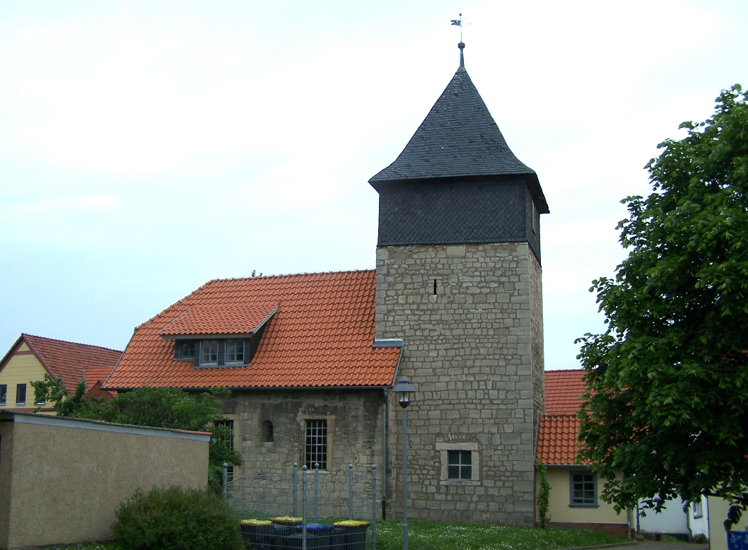 The church in Hastrungsfeld.